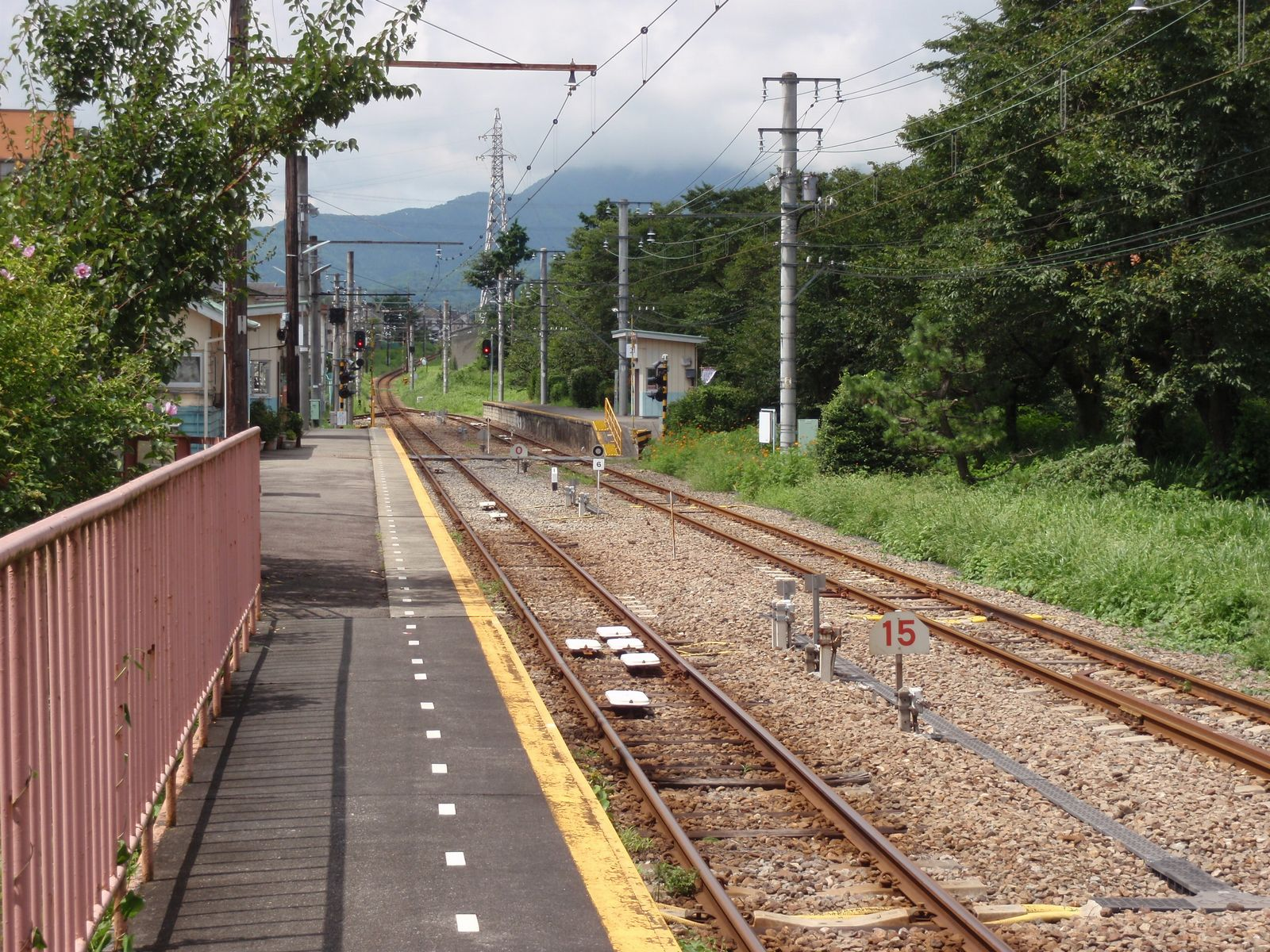 Higashi-Katsura Station enclosure